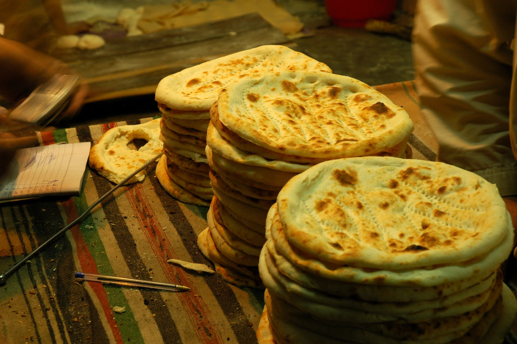 The bread of the masses.